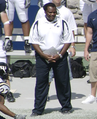 Coach Larry Johnson of the Penn State Nittany Lions